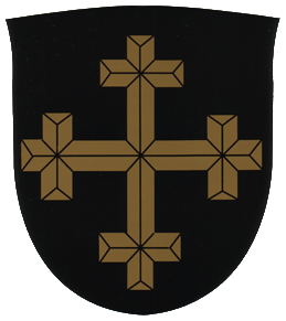 Coat of arms of Kestert